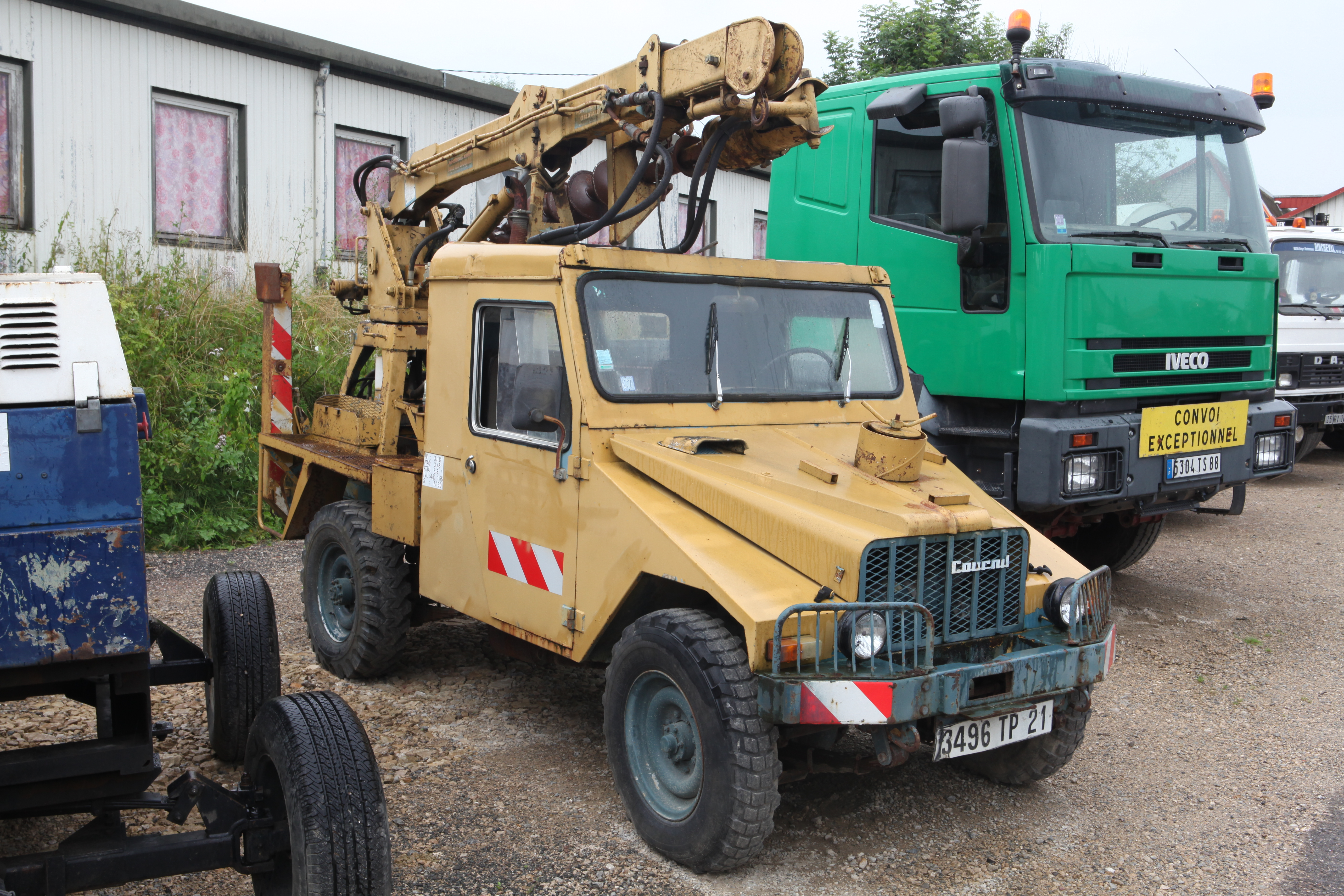 Cournil 4 x 4